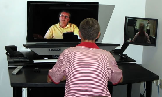 Telepresence used for teacher professional development during Project thereNow. Photo taken by. Dr. R. Shawn Edmondson.